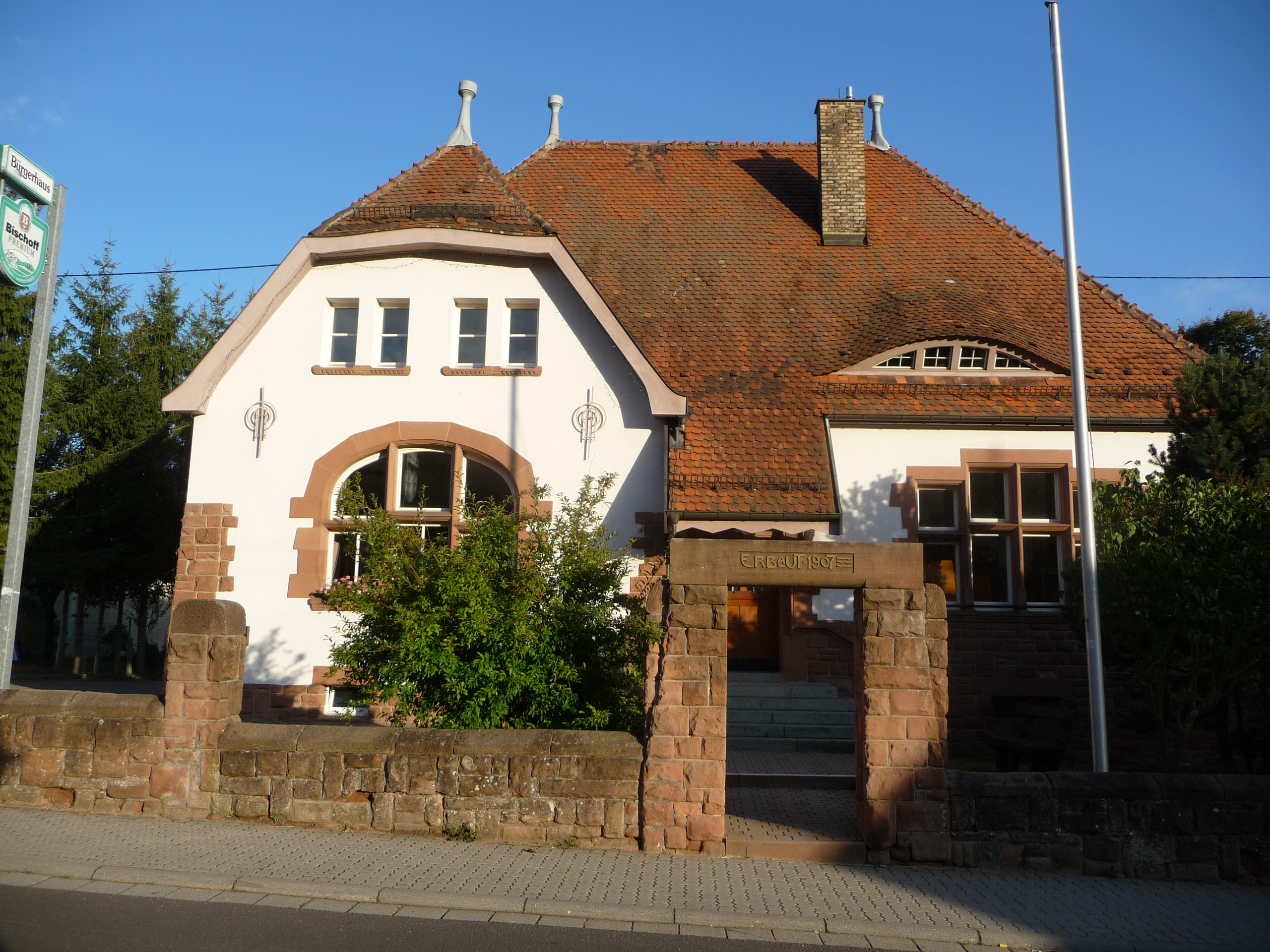 Hertlingshausen